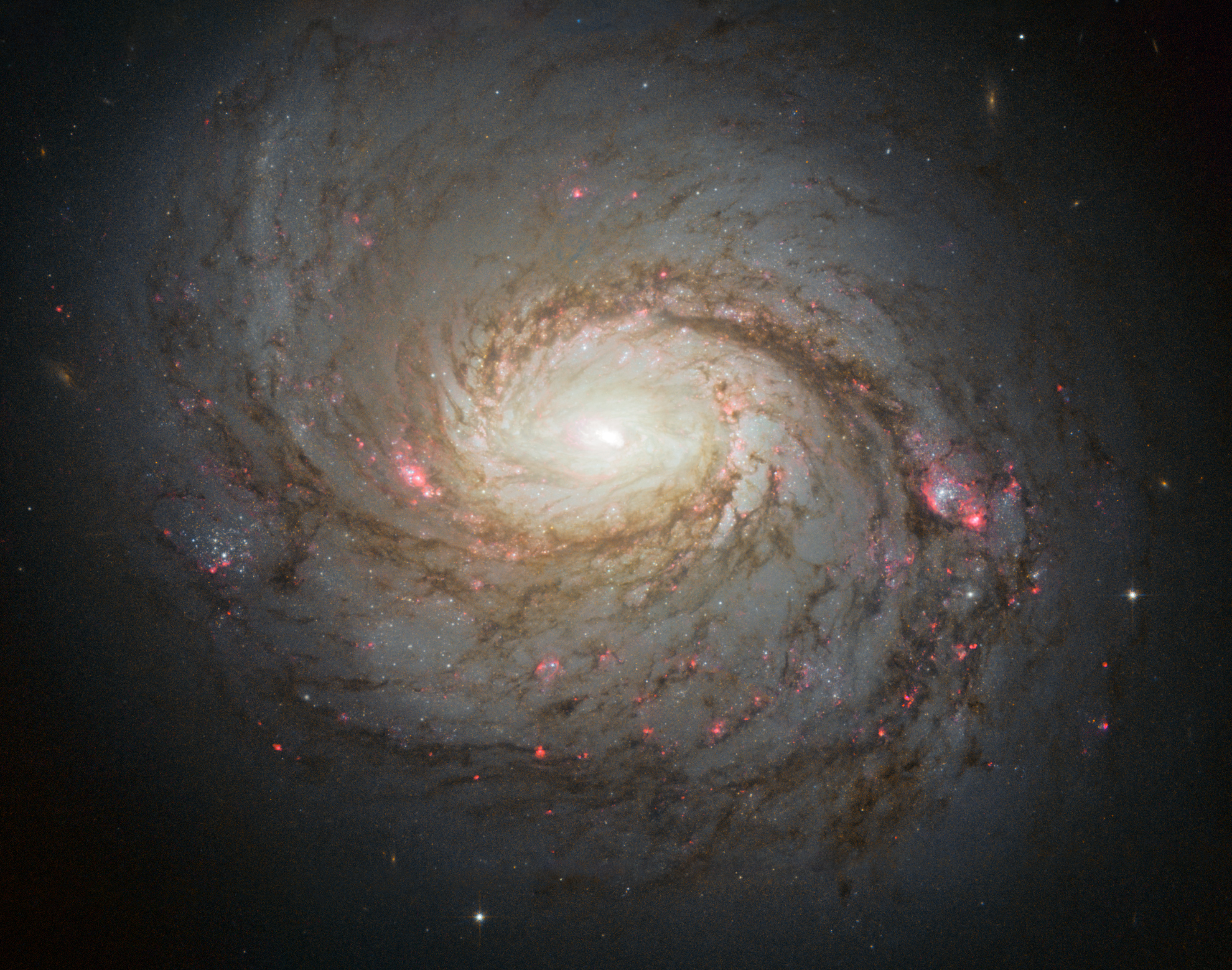 Hubble Space Telescope image of Messier 77 spiral galaxy. A version of this image won second place in the Hubble’s Hidden Treasures Image Processing Competition.